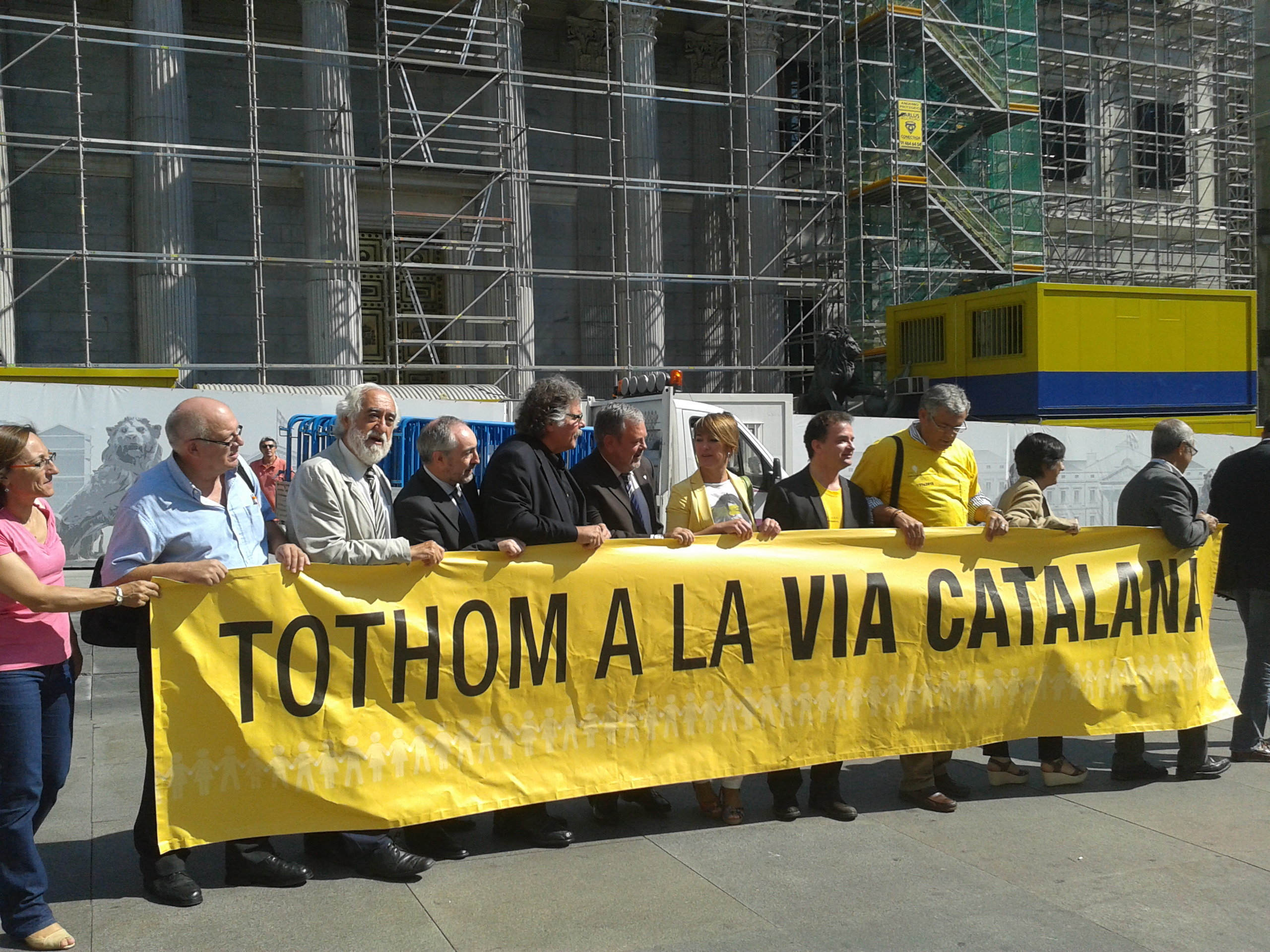 Banner supporting Catalan Way